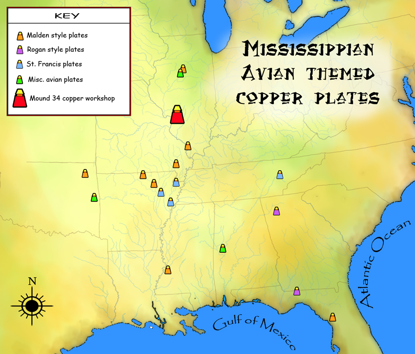 A map showing the geographic distribution of avian themed repoussé copper plates, a Mississippian culture elite status goods found as artifacts in the US midwest and southeast.